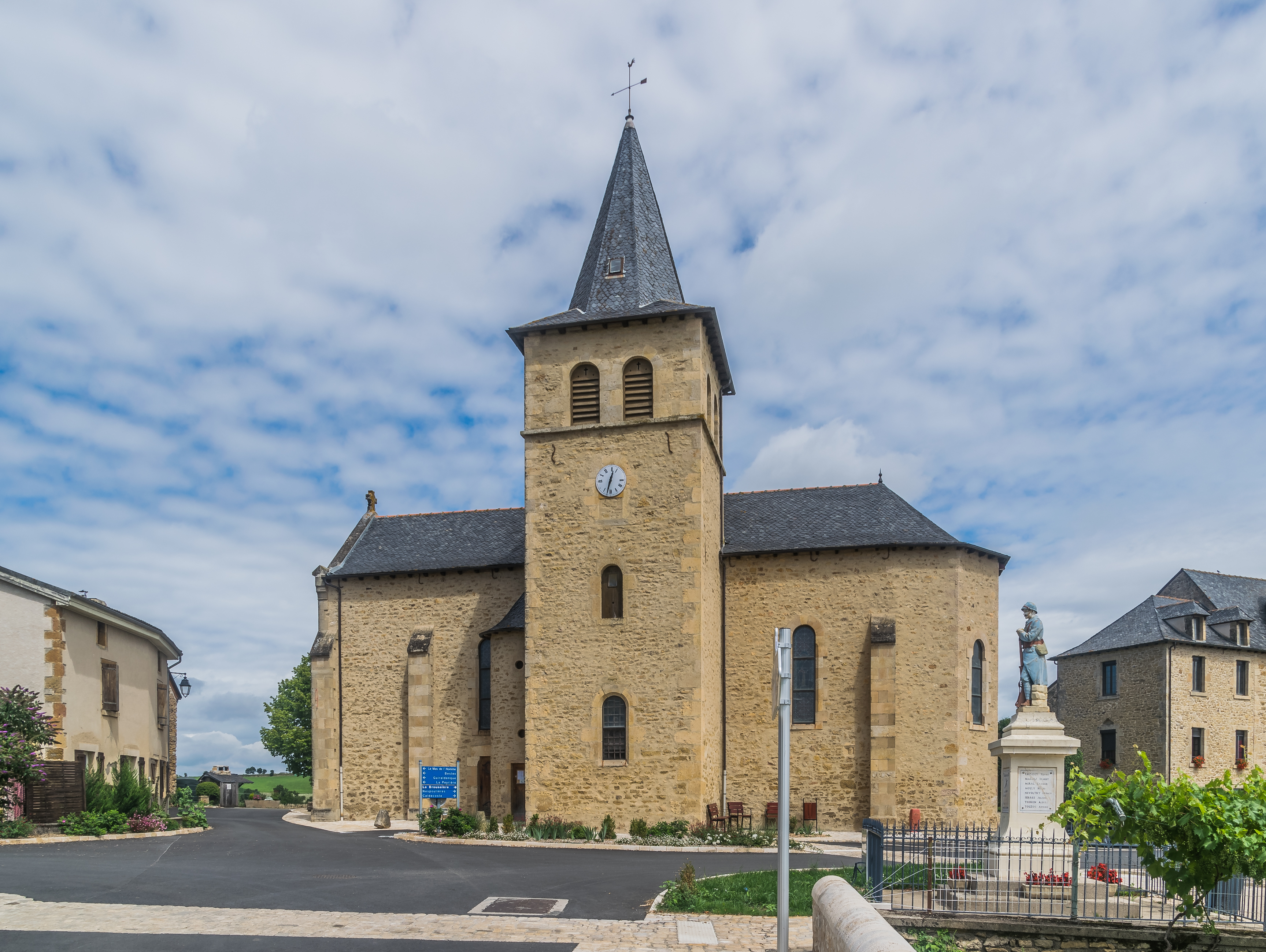 Church of Valzergues, Aveyron, France